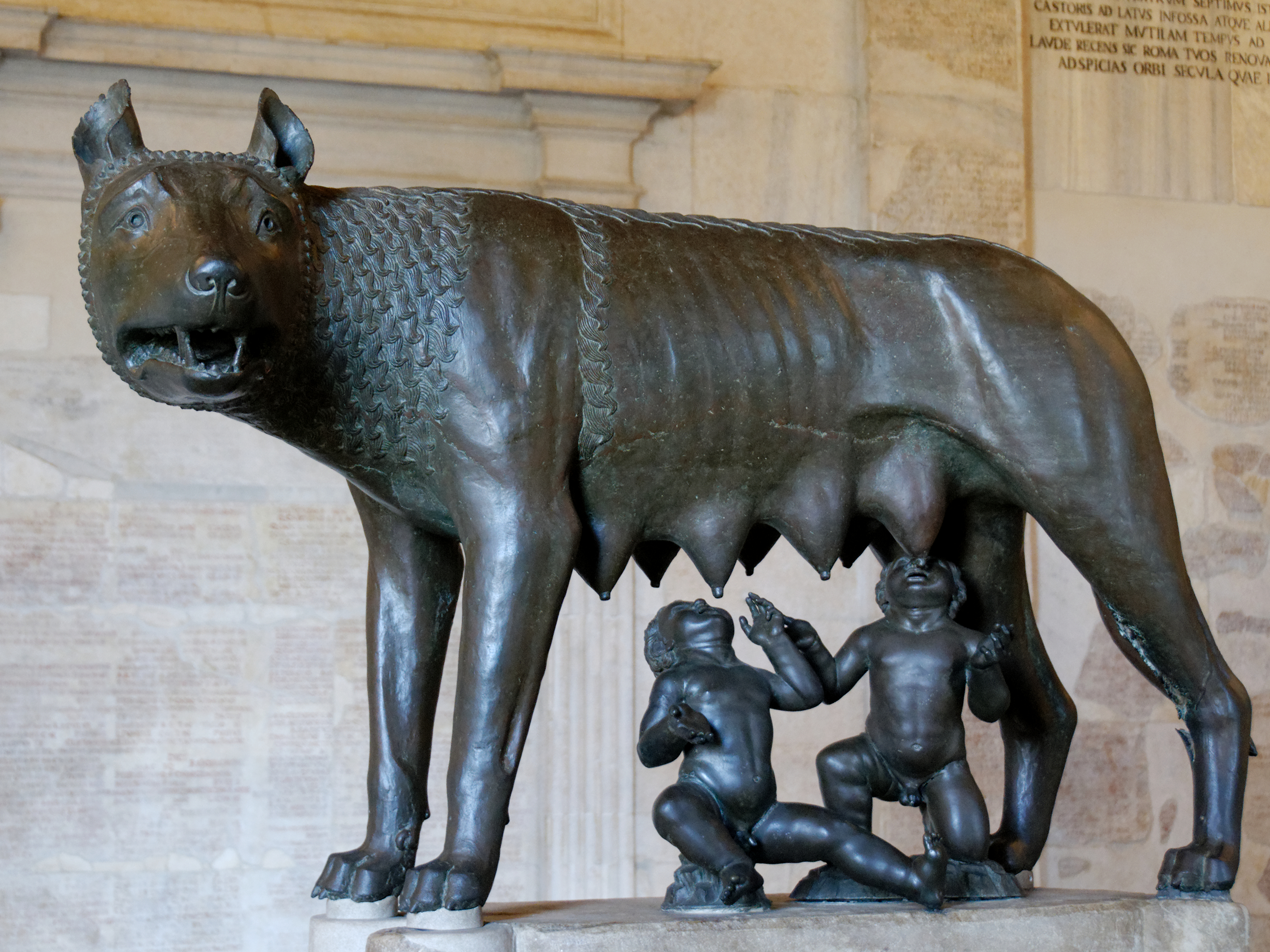 Lupa Capitolina: she-wolf with Romulus and Remus. Bronze, 13th century AD[1] (the twins are a 15th-century addition).